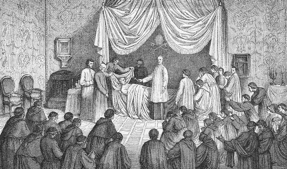 Drawing of Pius IX with Archbishop Pecci (future Leo XIII) certifying as Camerlengo his death